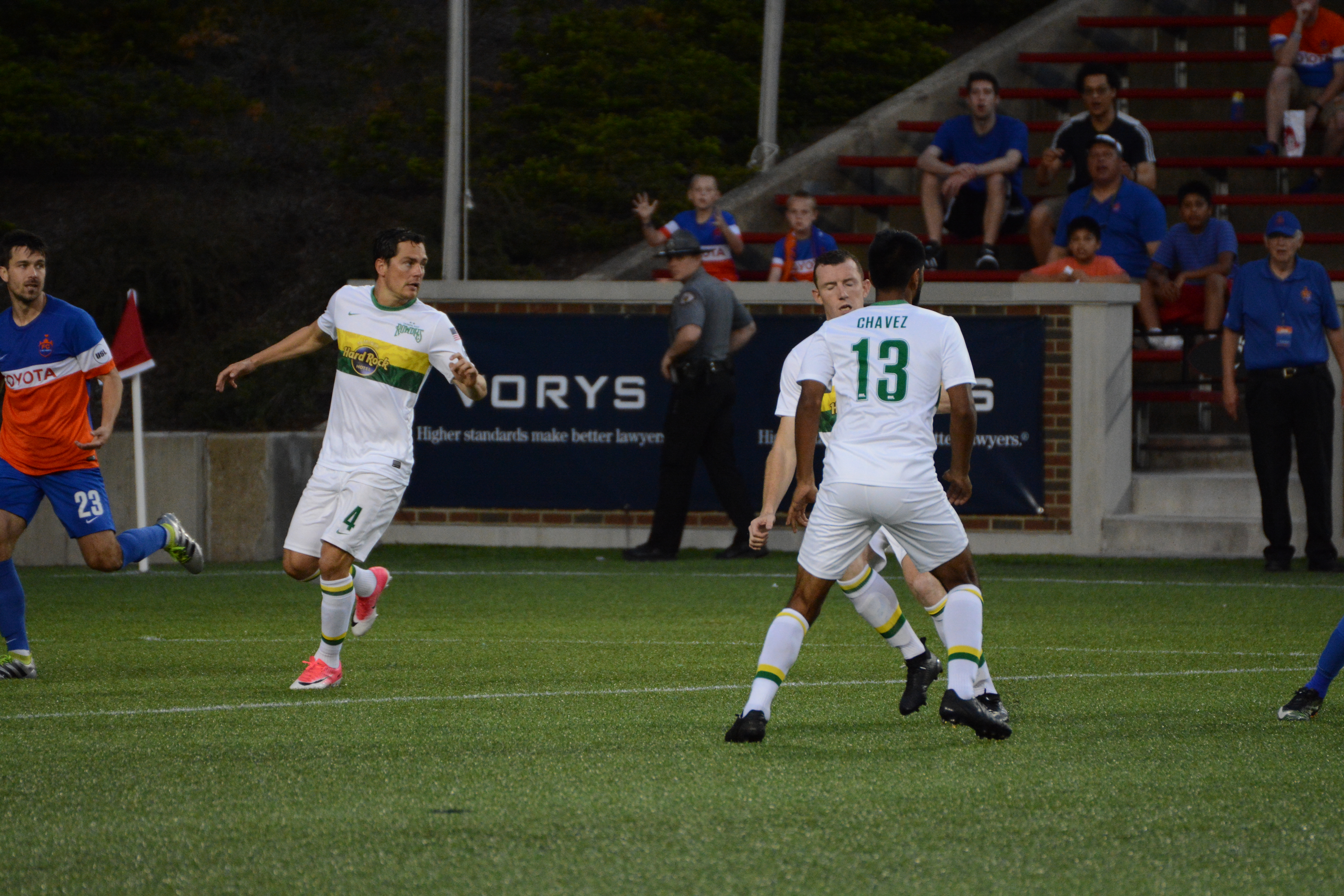 Marcel Schäfer Taken during a match between FC Cincinnati and Tampa Bay Rowdies at Nippert Stadium in Cincinnati, USA on April 19, 2017.